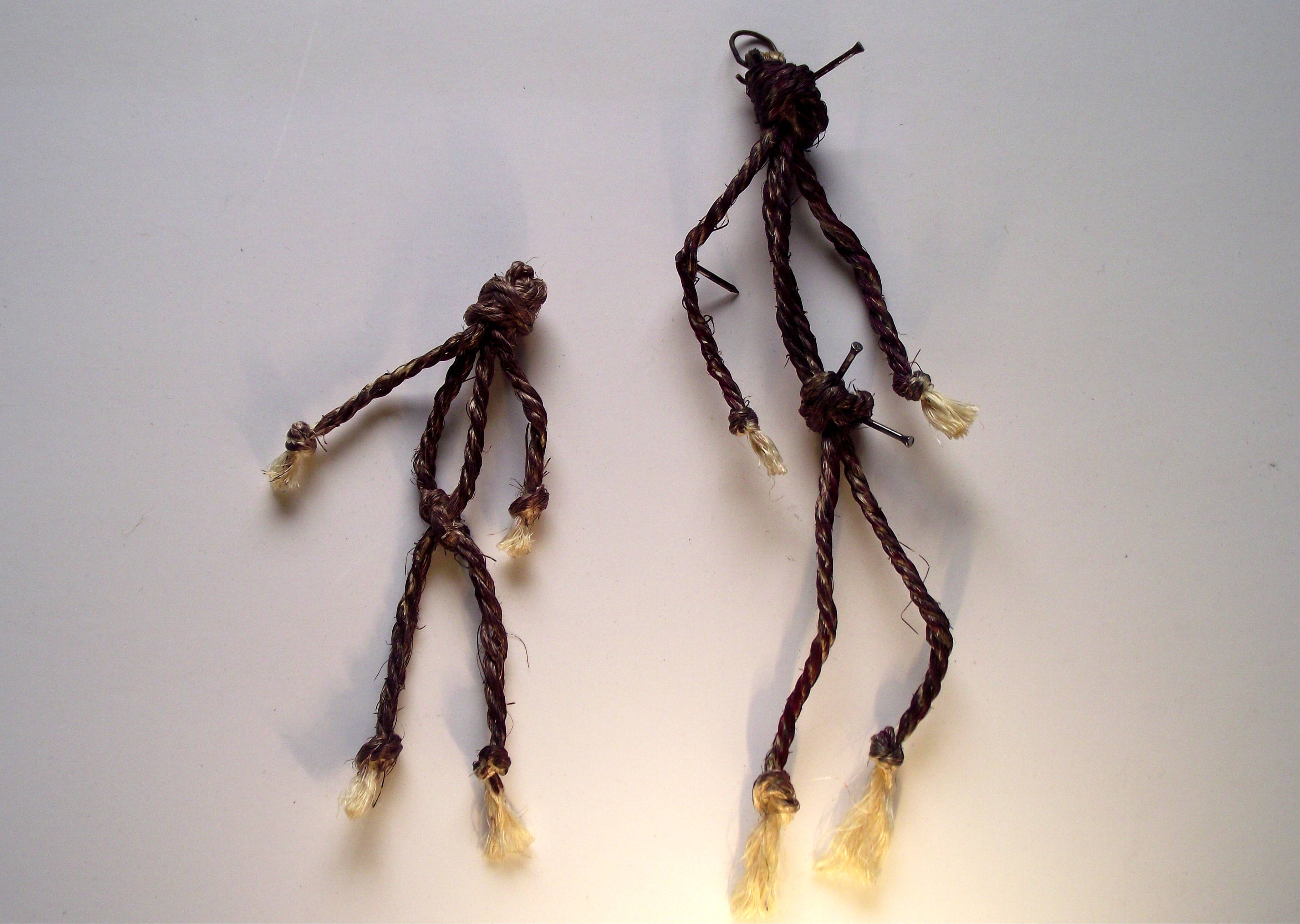 From Mal Corvus Witchcraft & Folklore artefact private collection owned by Malcolm Lidbury (aka Pink Pasty) Witchcraft Tools